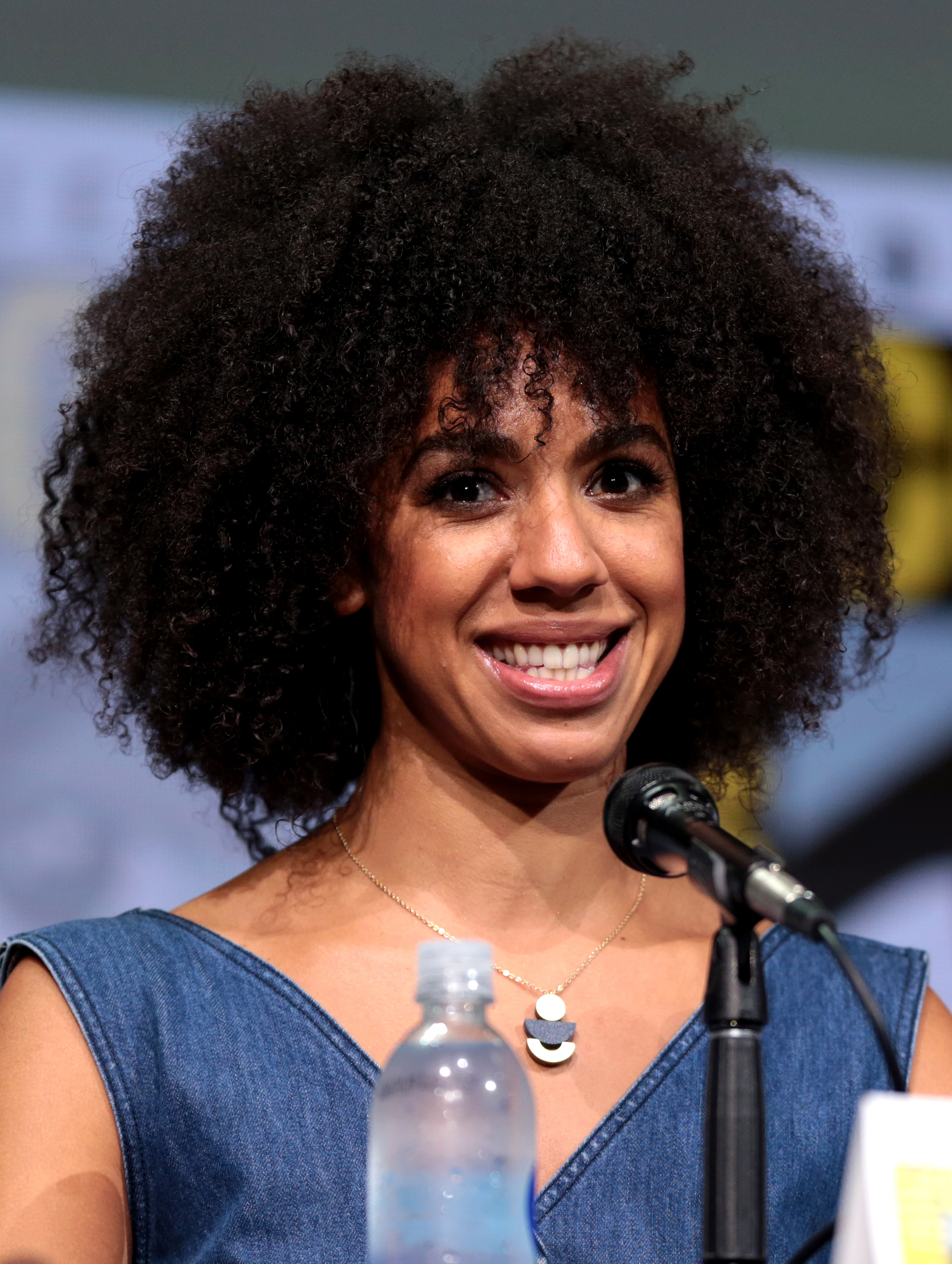 Pearl Mackie speaking at the 2017 San Diego Comic-Con International in San Diego, California.